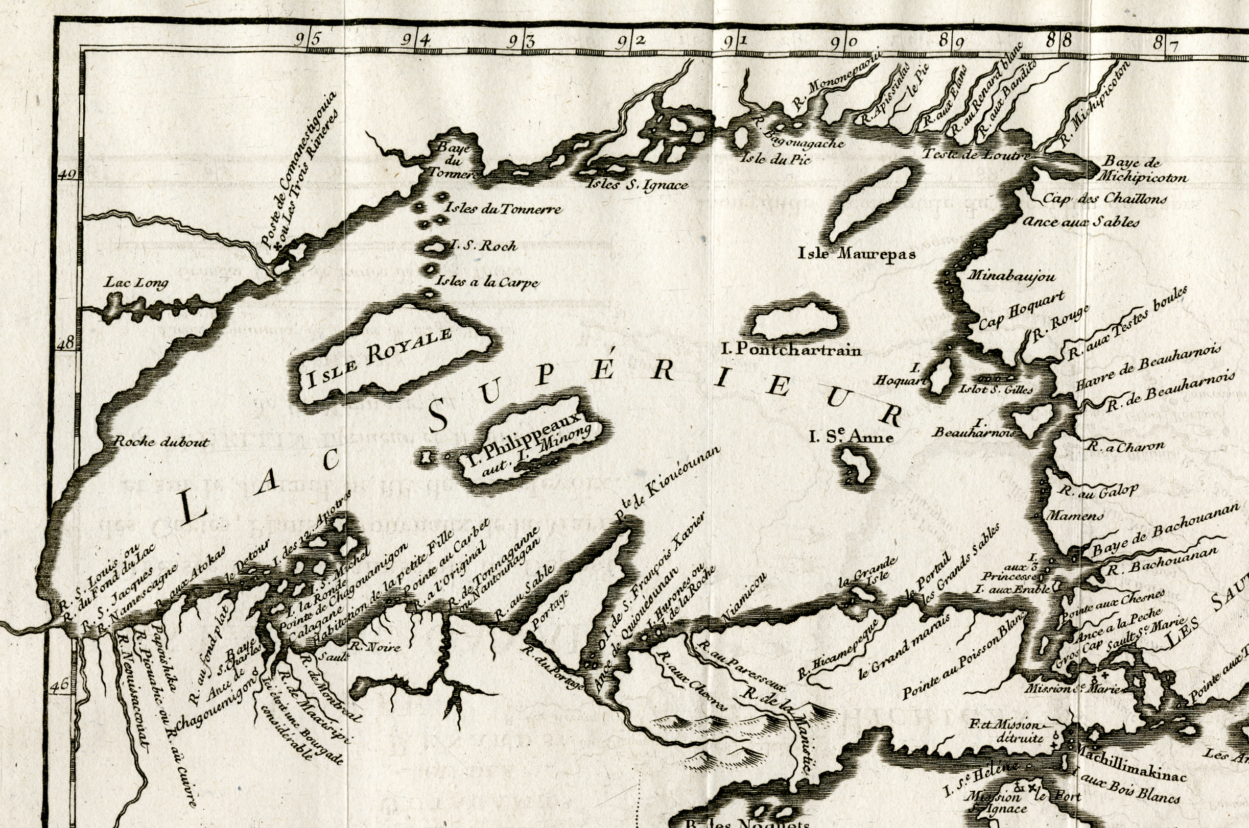 Excerpt from "Carte des Lacs du Canada" created in 1742, published in 1744 by Jacques-Nicolas Bellin, showing Lake Superior and its islands, including Isles Royale, Philippeaux, Pontchartrain, Maurepas, and Saint Anne's.